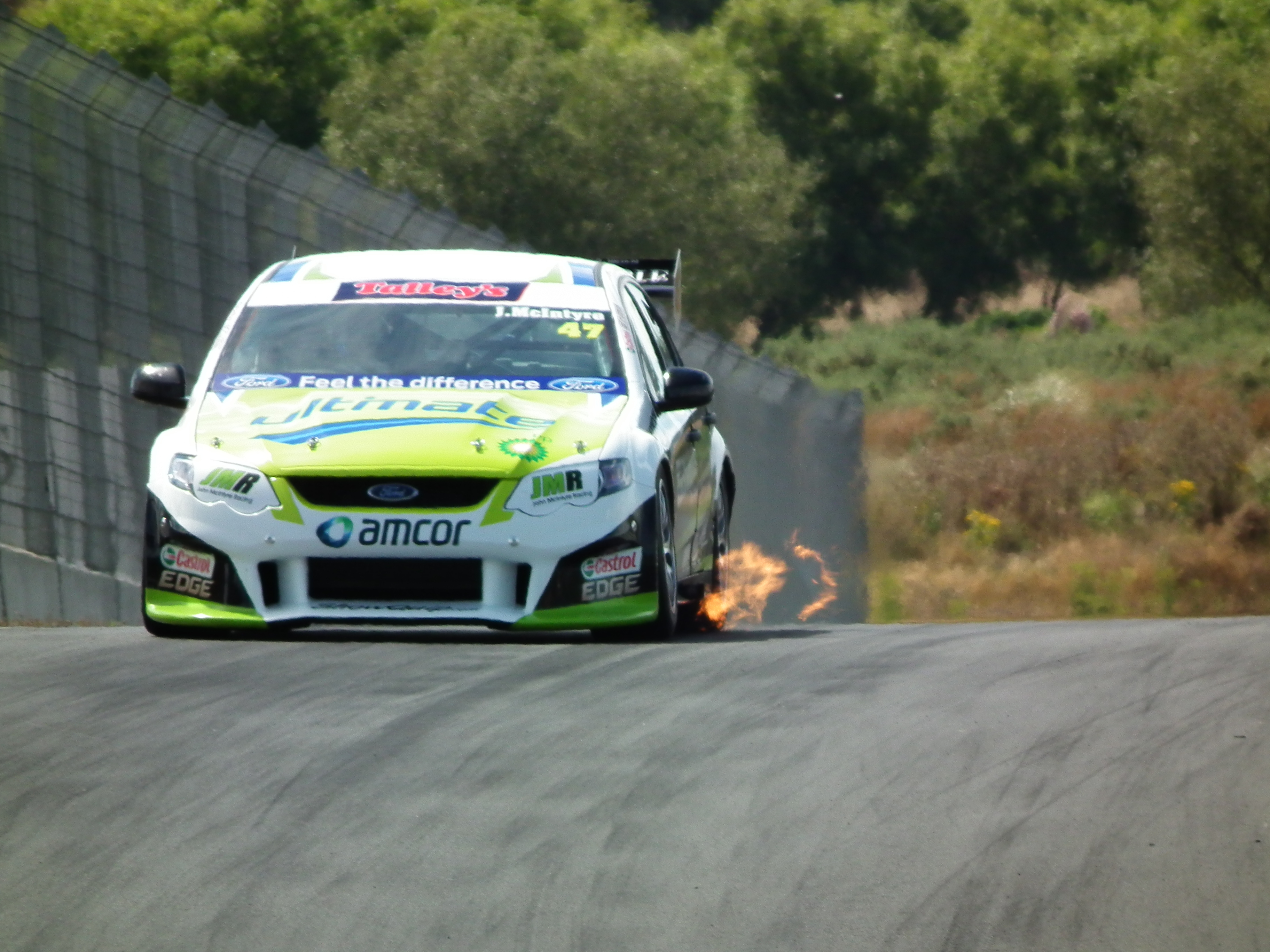 Hampton Downs, February 10, 2012